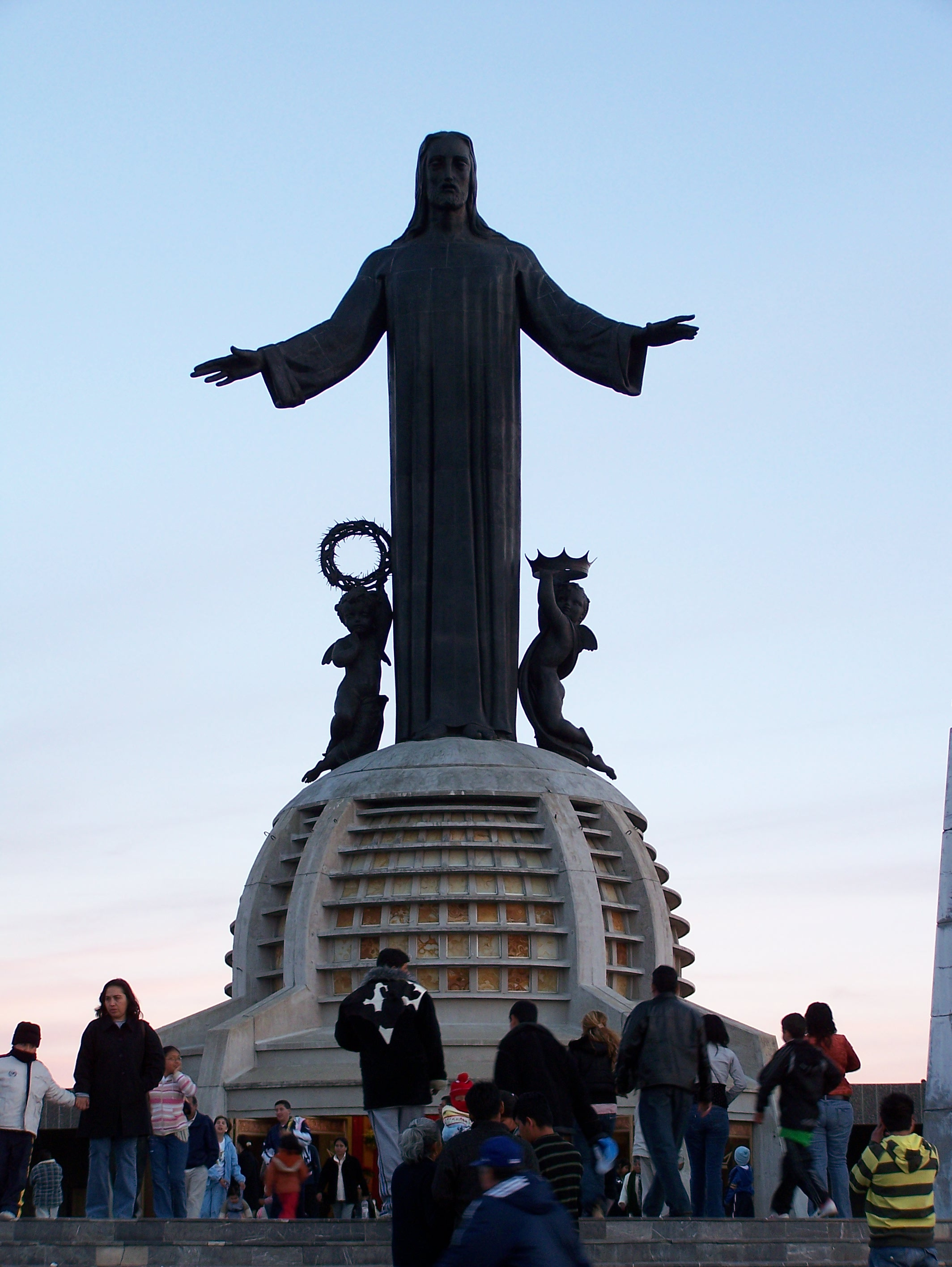 Statue on Cubilete's hill, Guanajuato .